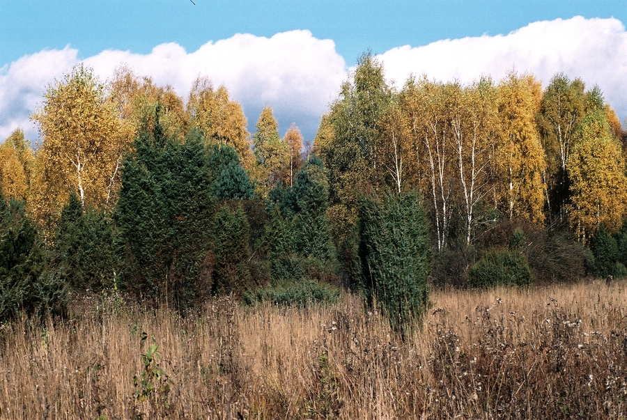 Polish national parks; Kampinoski Park Narodowy; Autumn 2004; released in 2005 by author M. Betley